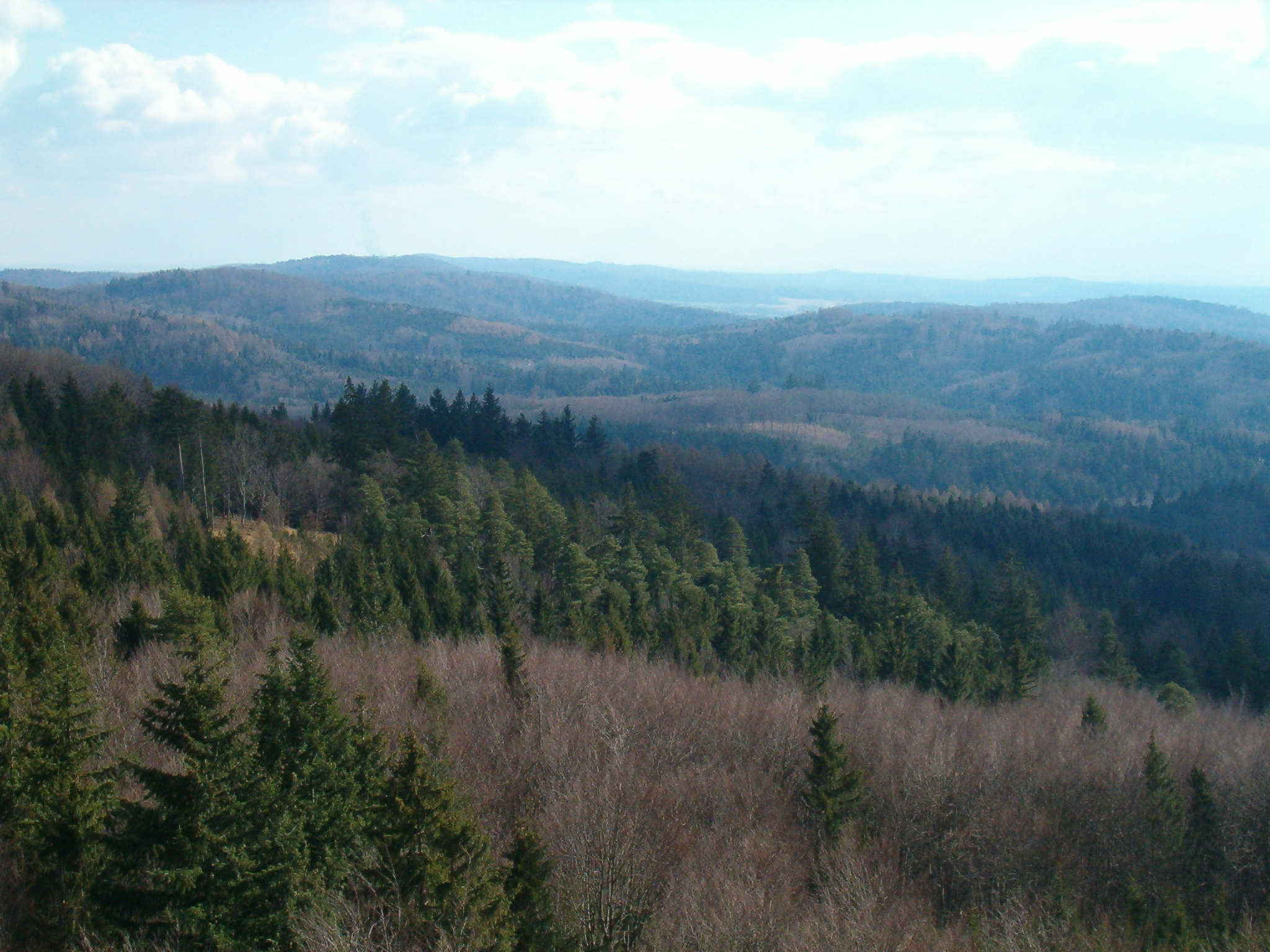 Písecké hory is forested mountain area near town Písek. By Chmee2´s family